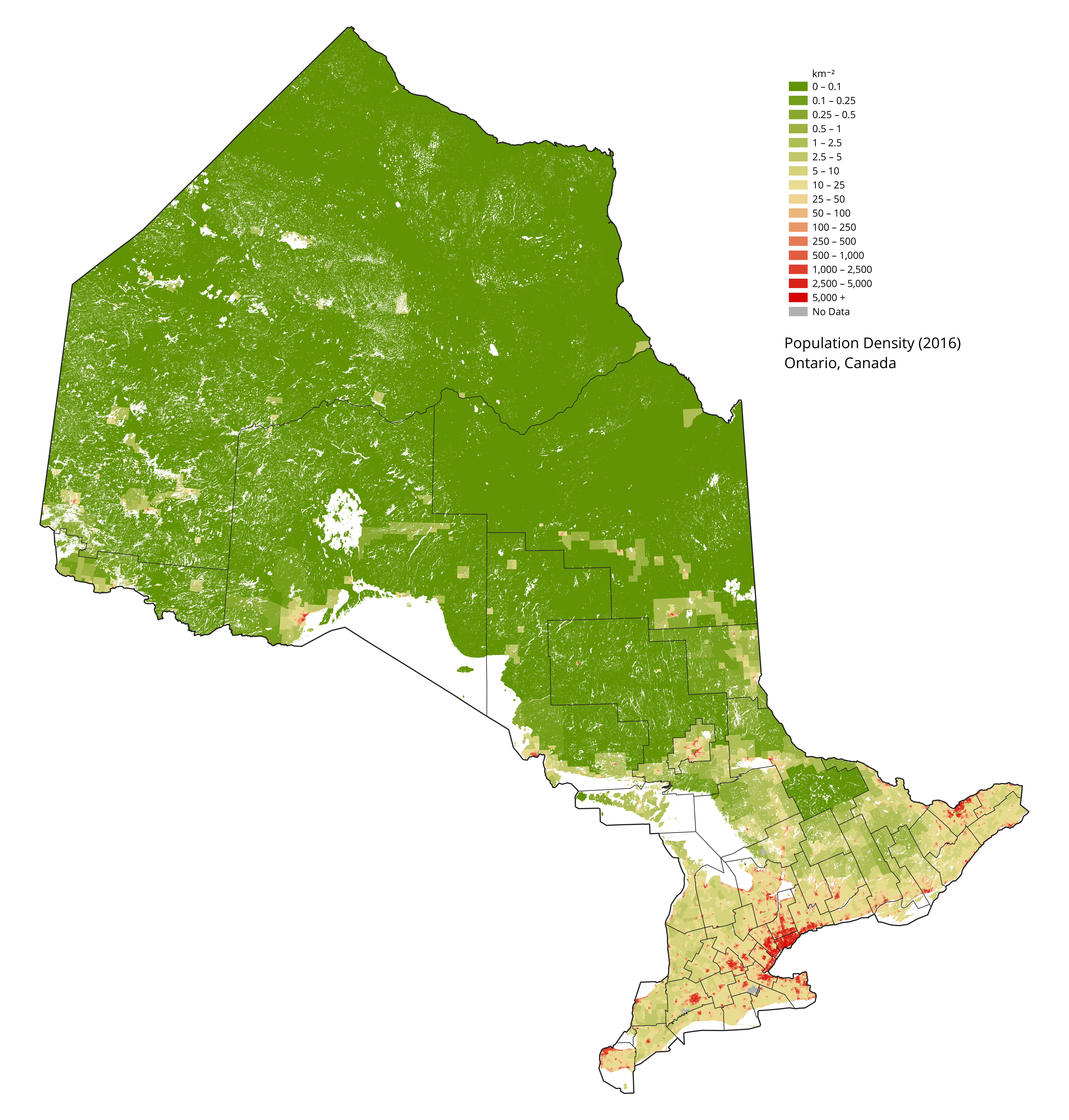 Population density map of Ontario, Canada. Boundary open data and final counts from Canadian 2016 Census accessed on April 22 2018. Waterbodies from WWF HydroLAKES database.